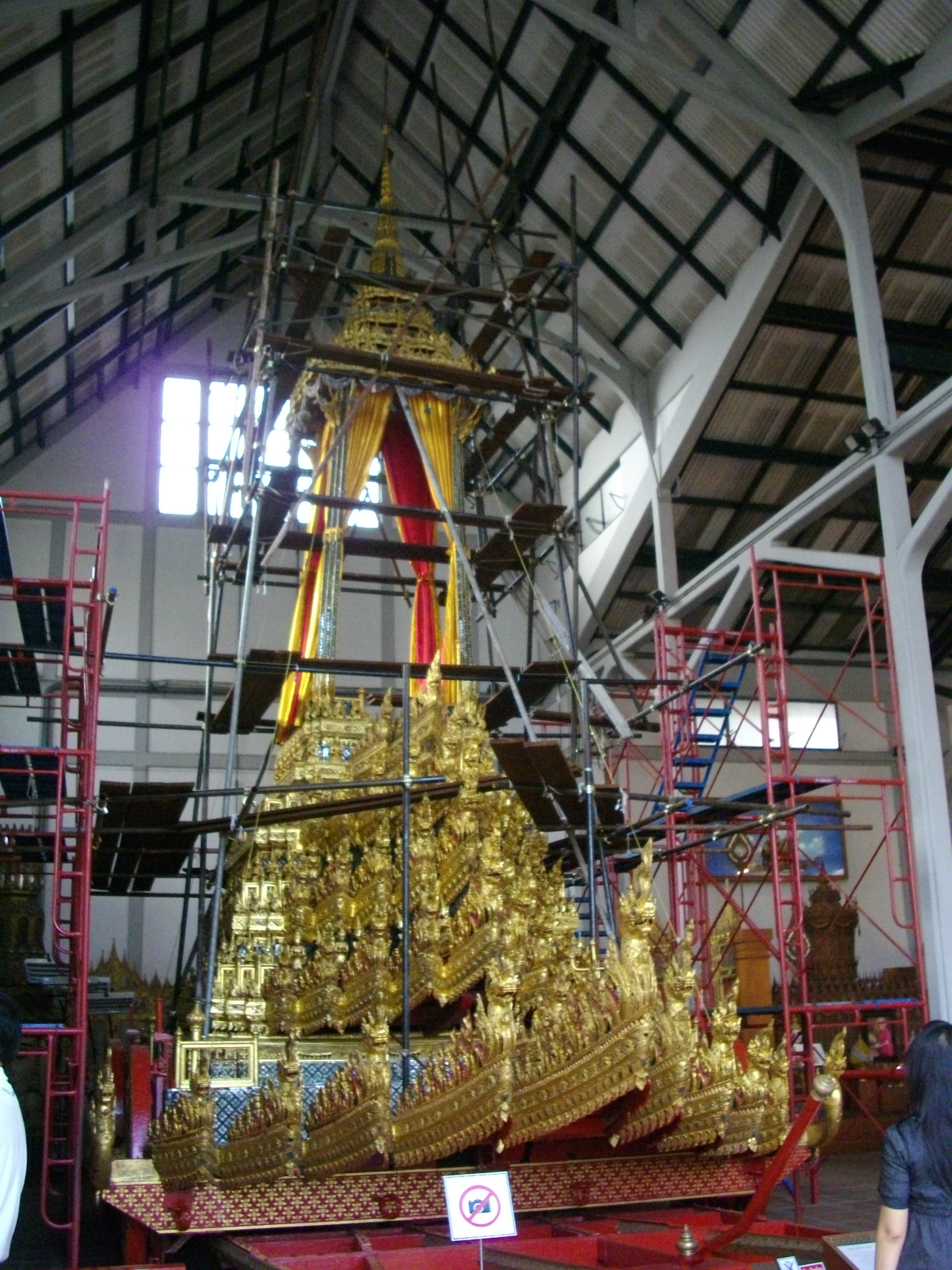 Phra Vejjayantaratcharot, the other royal carriage which use in thr royal cremation ceremony in Thailand but it is not use in the royal cremation ceremony of HRH Princess Galyani Vadhana. In this picture, this royal carriage is under renovated.